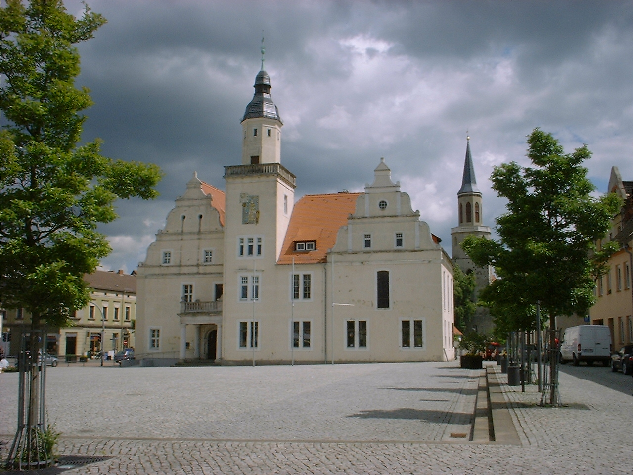 Town hall in Coswig in Saxony-Anhalt, Germany